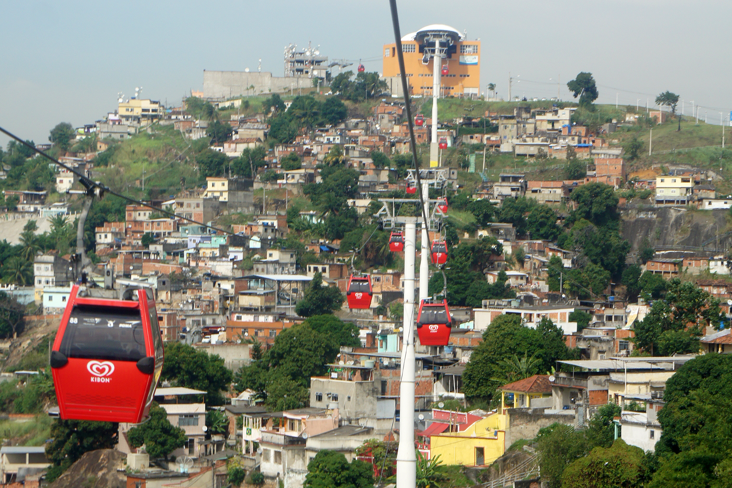 Aerial cable cars towards and from Adeus station, Teleférico do Complexo do Alemão, Rio de Janeiro